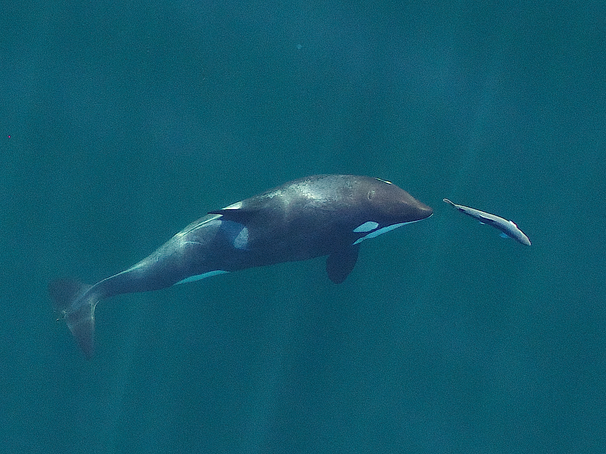 A young resident killer whale chases a chinook salmon in the Salish Sea near San Juan Island, Washington, in September 2017. Image obtained under NMFS permit #19091. Photograph by John Durban (NOAA Fisheries/Southwest Fisheries Science Center), Holly Fearnbach (SR3: SeaLife Response, Rehabilitation and Research) and Lance Barrett-Lennard (Vancouver Aquarium’s Coastal Ocean Research Institute).